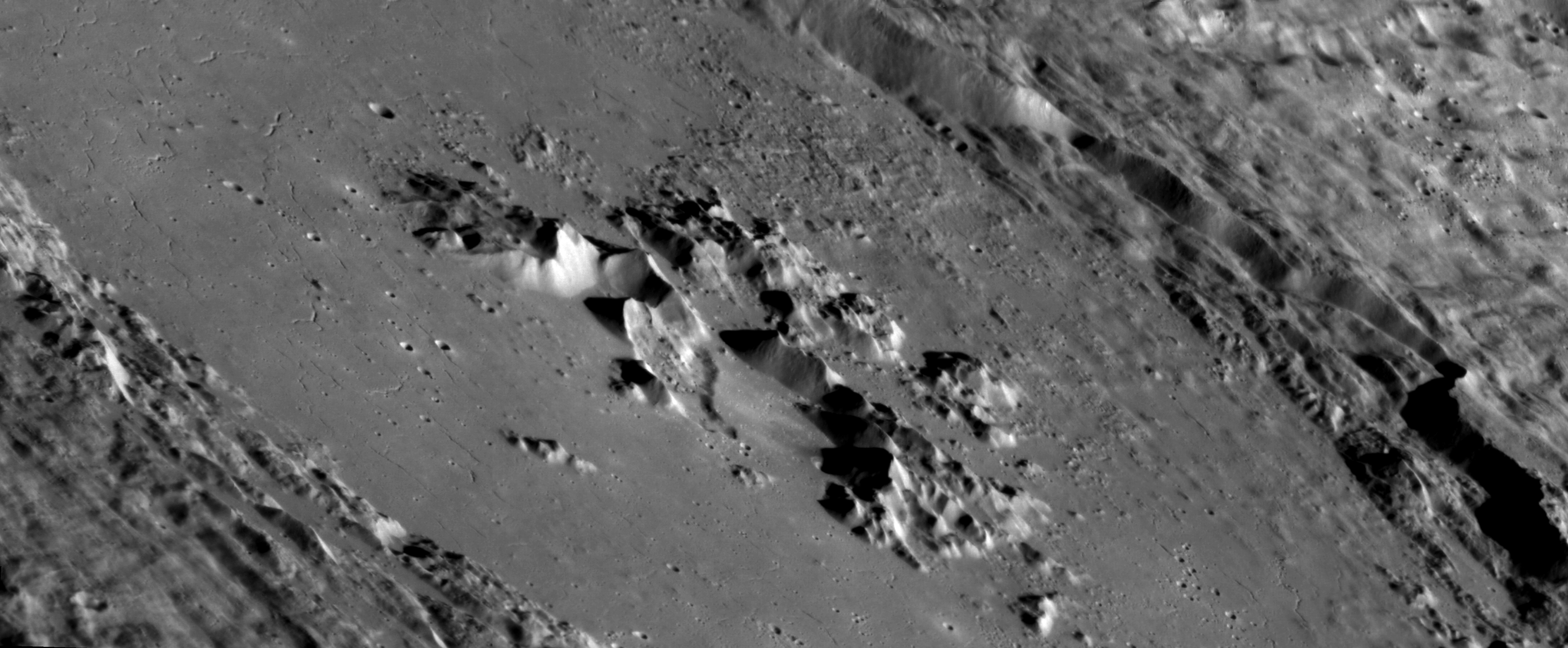 Instrument: Mercury Dual Imaging System (MDIS) Center Latitude: 61.7° Center Longitude: 349.3° E Scale: Abedin crater is 116 km (72 miles) in diameter Of Interest: This mosaic of oblique images highlights the spectacular interior of Abedin crater. The crater floor is covered with once-molten rock melted by the impact event that formed Abedin. Cracks that formed as this melt cooled are visible. Particularly intriguing is the shallow depression that lies amidst the central peaks of the crater and may be volcanic in origin. Color imaging shows that this depression is surrounded by reddish material, as seen at other sites of explosive volcanism across Mercury. The MESSENGER spacecraft is the first ever to orbit the planet Mercury, and the spacecraft's seven scientific instruments and radio science investigation are unraveling the history and evolution of the Solar System's innermost planet. In the mission's more than four years of orbital operations, MESSENGER has acquired over 250,000 images and extensive other data sets. MESSENGER's highly successful orbital mission is about to come to an end, as the spacecraft runs out of propellant and the force of solar gravity causes it to impact the surface of Mercury in April 2015.